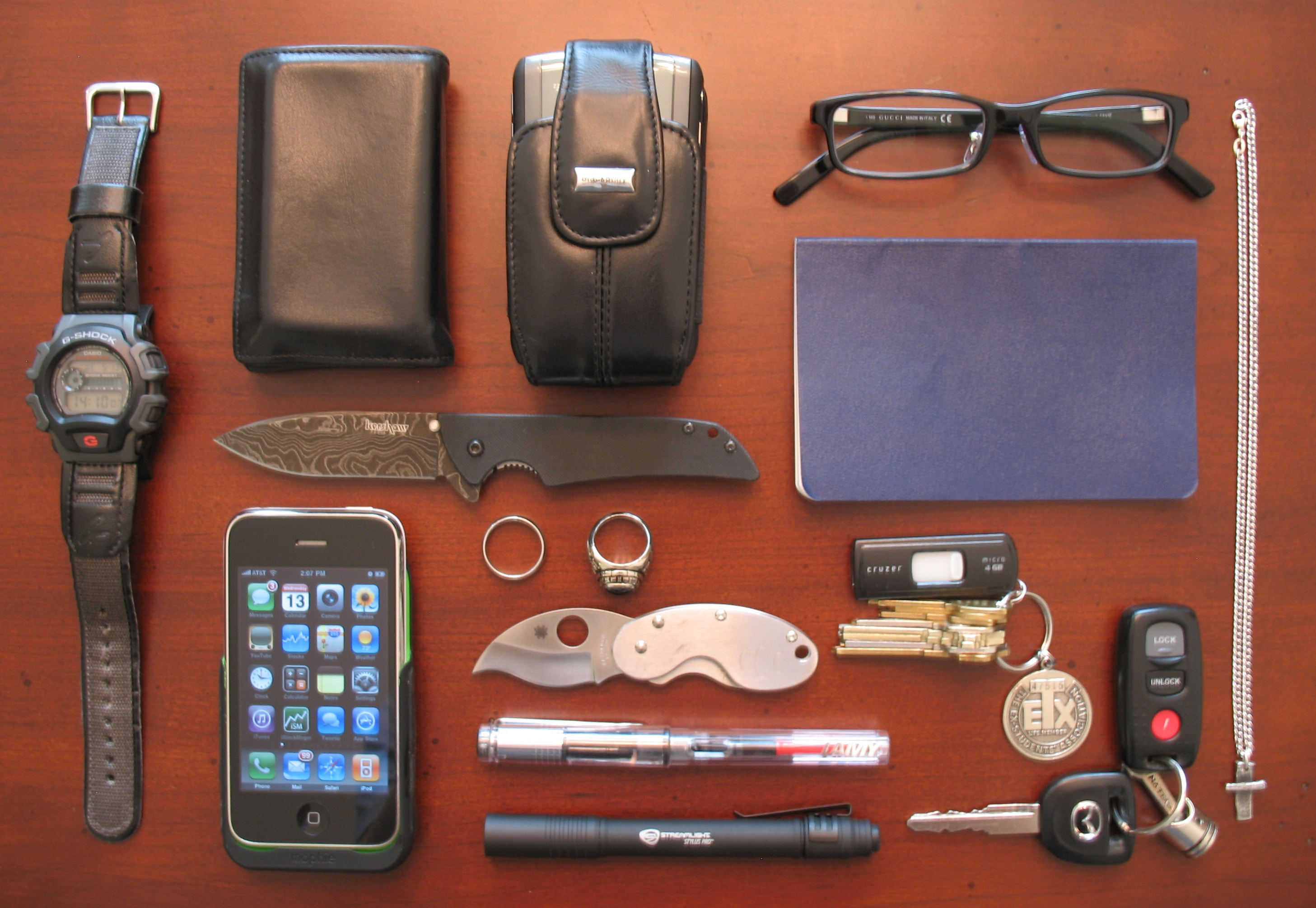 Since last time, I replaced my iPhone 3G with an iPhone 3G S, purchased a Mophie JuicePack battery pack for my iPhone, bought a second knife, added a little light to my life, and found a new notebook to carry. I quit carrying Vojo Mints as I work at home now and I was mostly carrying them to have caffeine handy for slow days at the office. I also dropped my class ring and destroyed the Black Onyx in it, but Jostens was kind enough to melt down and recast my ring with a shiny new stone at no charge, but it looks all the same to you. :) Starting from the left, we have my Casio G-Shock (Circa ~1995), my black leather Tumi Meridian Gusseted Card Case with ID, BlackBerry Curve 8330 with BlackBerry Curve Leather Swivel Holster (Company issued phone. E-mail and Calendar use only. All other removable apps have been removed.), Gucci 1579 eyeglasses w/AR coated polycarbonate lenses, Kershaw Skyline (Damascus Steel, Plain Edge) Knife, Moleskine Volant Pocket Ruled Notebook, James Avery "i-" cross pendant on a silver chain, Apple iPhone 3G S (32GB Black) with Mophie JuicePack 3G, wedding ring, University of Texas class ring, Spyderco knife (A groomsman gift from my best friend's wedding), key to my Mazdaspeed 3 with "No Fear" rod and piston key chain, all my other keys as well as my 4GB Cruzer and Texas Exes Life Member key chain, Lamy Safari Vista Fountain Pen (Extra-Fine) with Lamy Fountain Pen Z 24 Converter with Noodler's SwishMix Waterproof Bottled Fountain Pen Ink (a very nice writing pen that won't leave me depressed if I lose it, which was the case with the multiple vintage Parker 51 pens I've carried and lost in the past. The ink I'm using is wicked good, dark as night and permanent as a bad nickname.), and my new and much-loved Streamlight 66118 Stylus Pro Black LED Pen Flashlight.